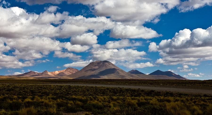 The Cerro Negro dome and the Cerros de Macón stratovolcano are the western most part of the Purico Volcanic complex, a pyroclastic shield made up by several stratovolcanoes, lava domes and a maar.